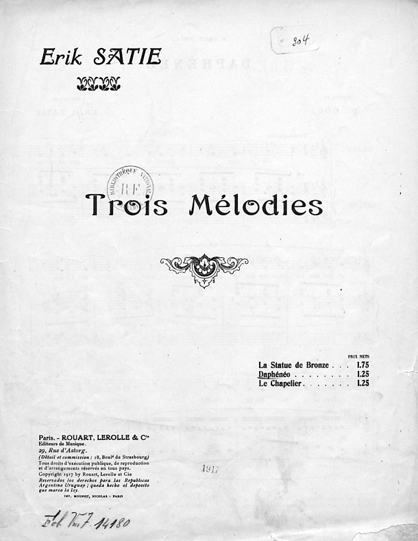 Cropped, adjusted version of PD image from Gallica BNF for illustrative purposes